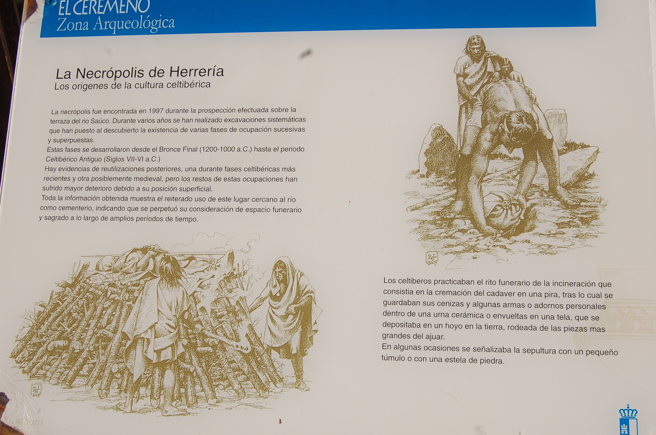 Information panel of necropoles or cementery of Herrería, in archaeological site of "El Ceremeño".